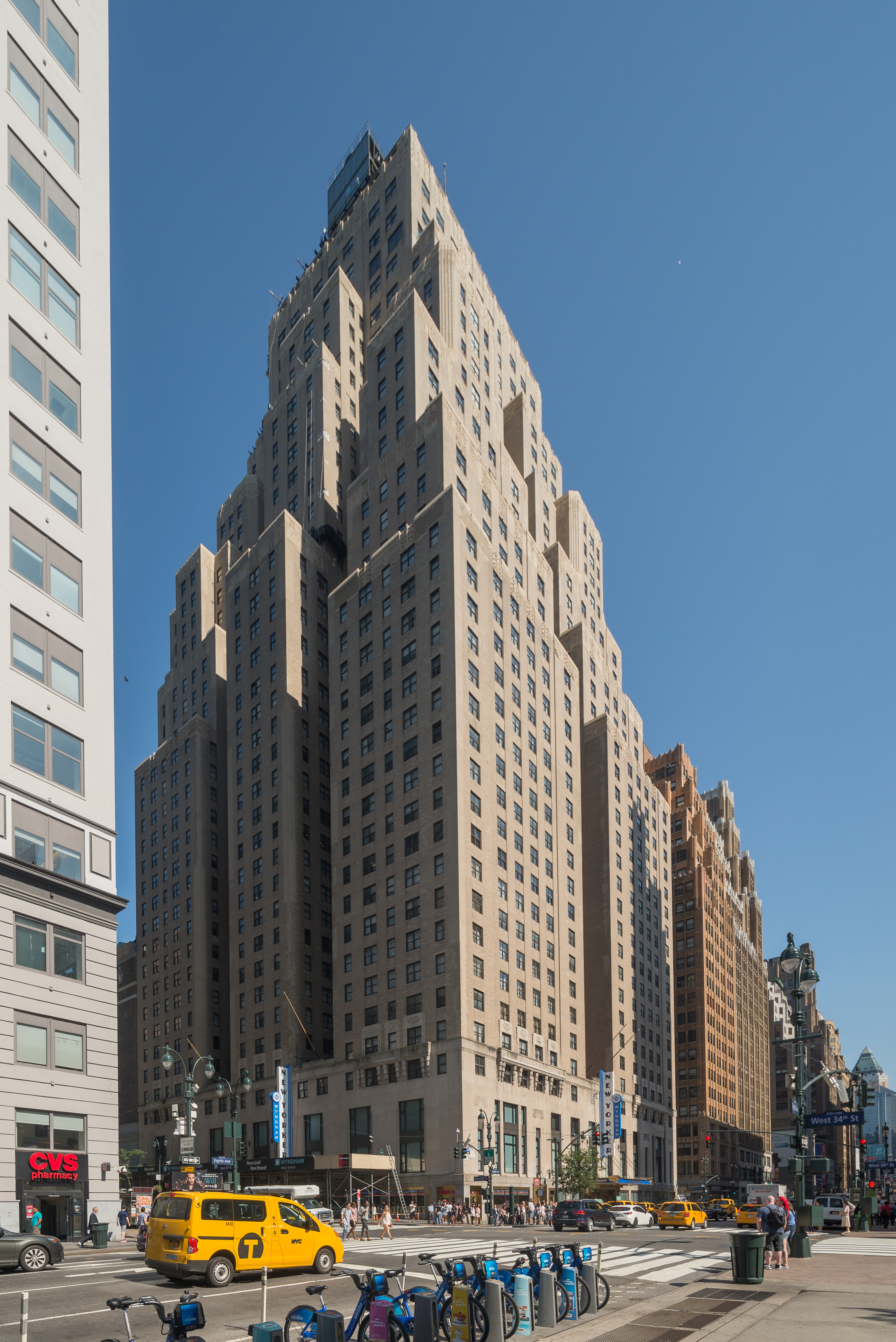 Wyndham New Yorker Hotel in the intersection of 8th Avenue and West 34th Street. Manhattan, New York.